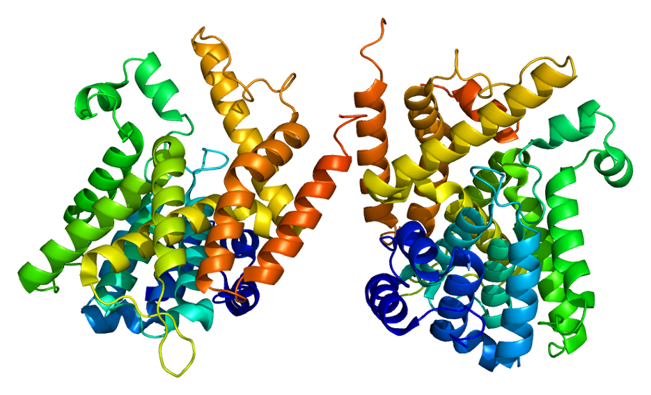 Structure of the PDE4B protein. Based on PyMOL rendering of PDB 1f0j.